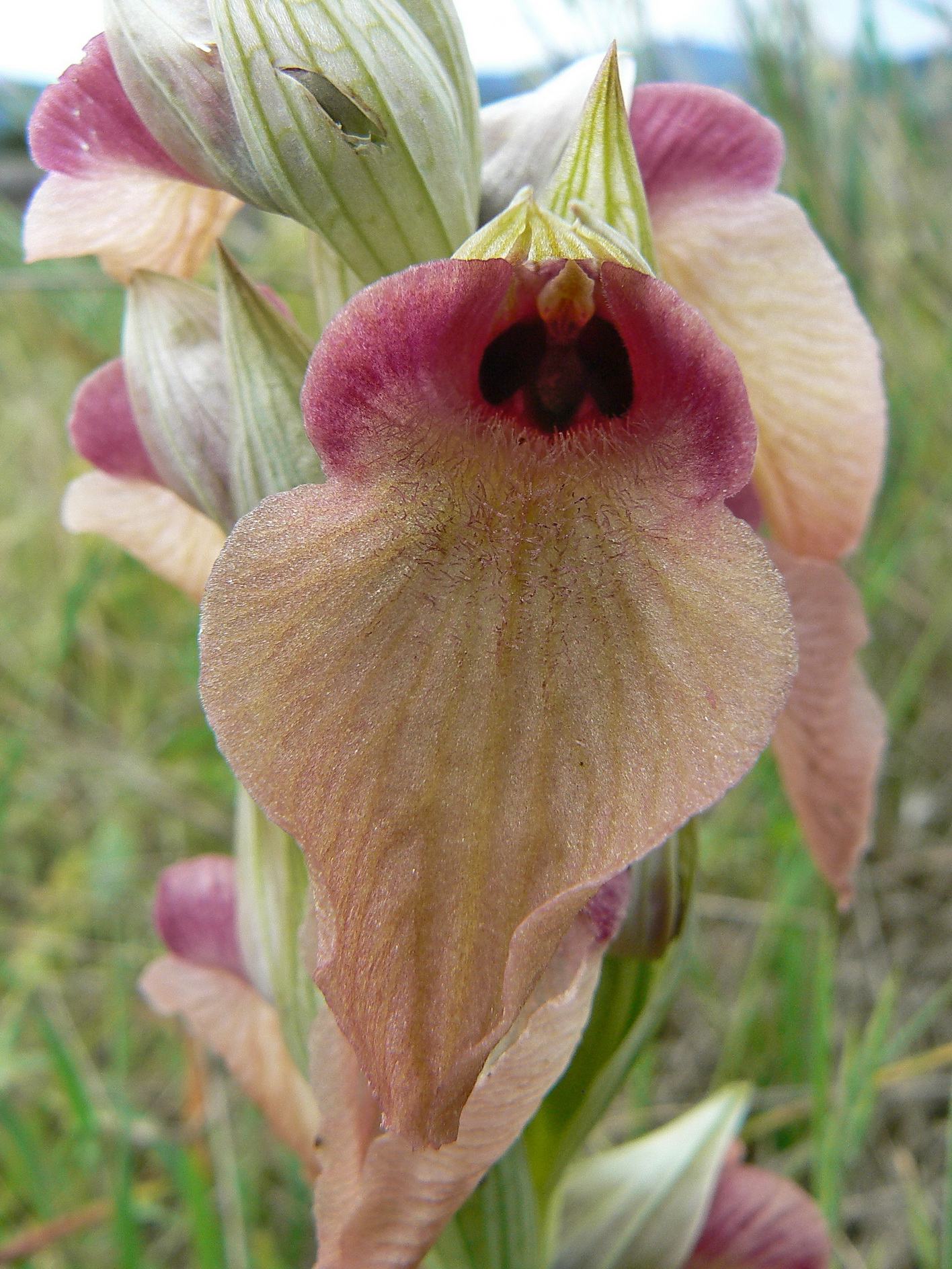 Serapias neglecta, Plaine des Maures, Var, France. Detail of flower.